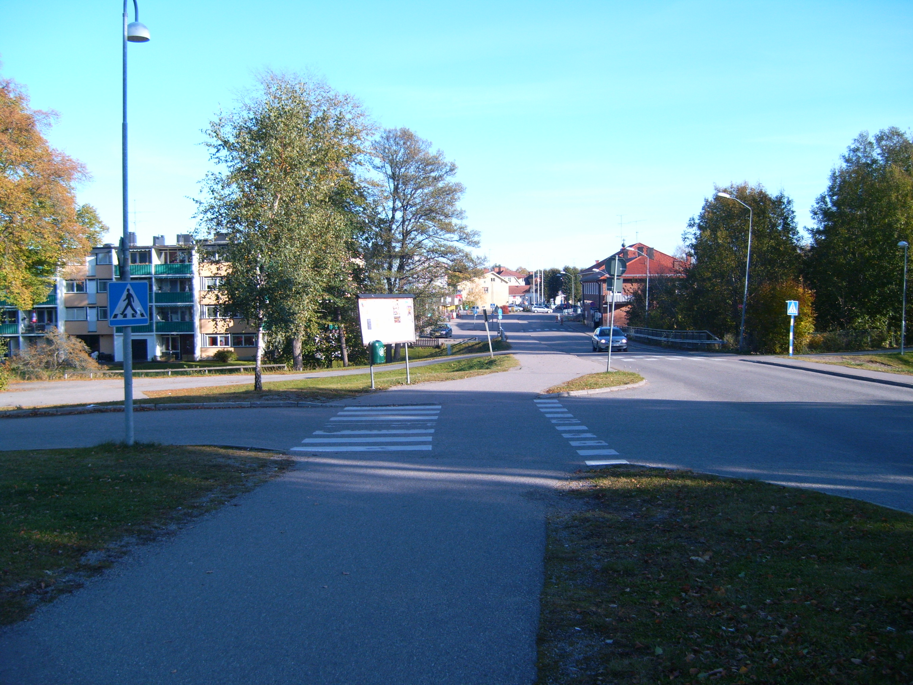 A photo of Heby, Sweden.